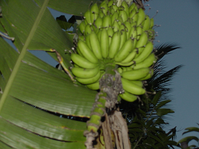 NOTE: I made a mistake in identifying this. This is actually the Latundan variety of banana.